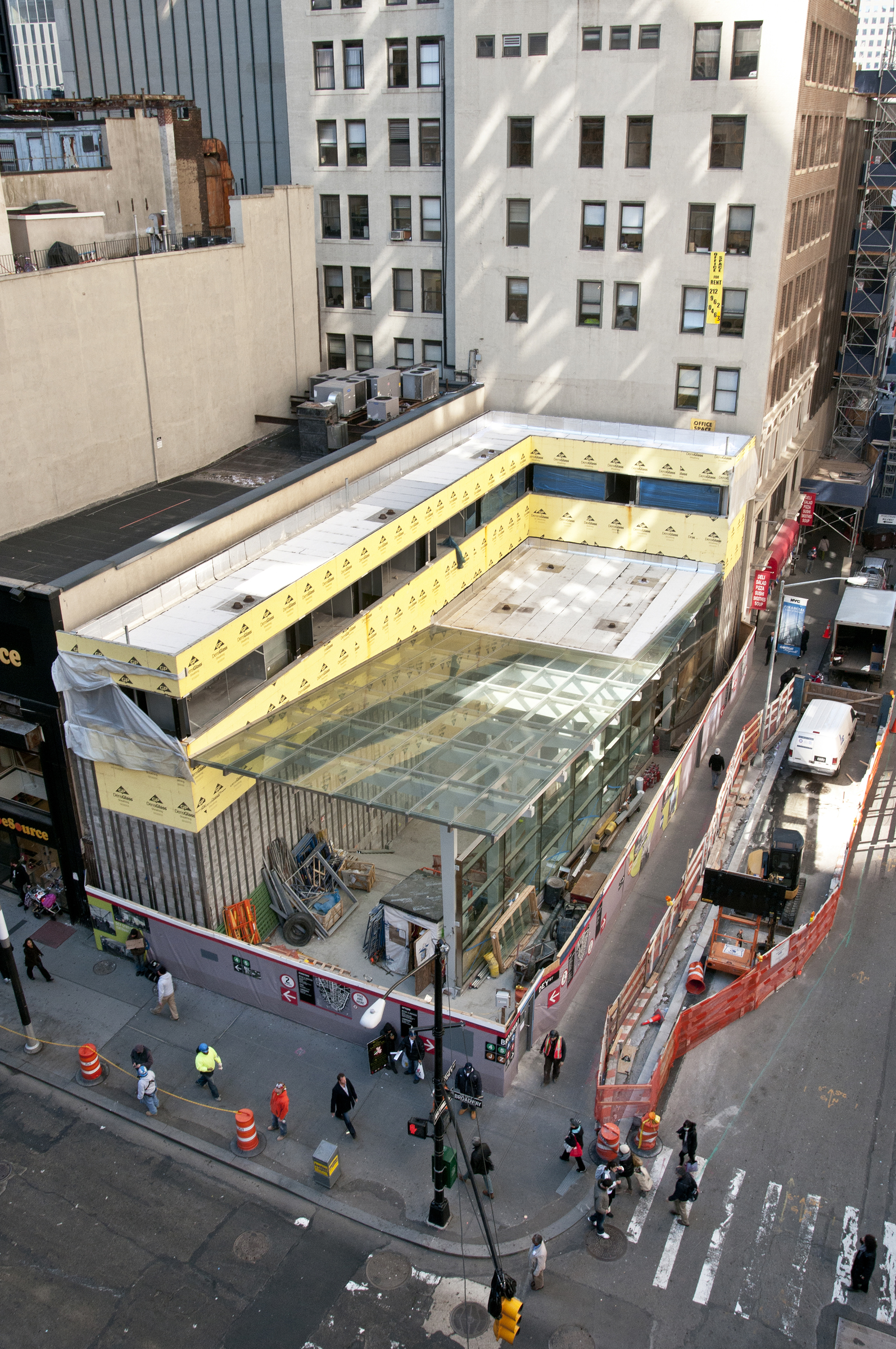 This photo shows the status of construction of the Dey Street Headhouse portion of the Fulton Street Transit Center as of February 27, 2012. Photo by Metropolitan Transportation Authority / Patrick Cashin.